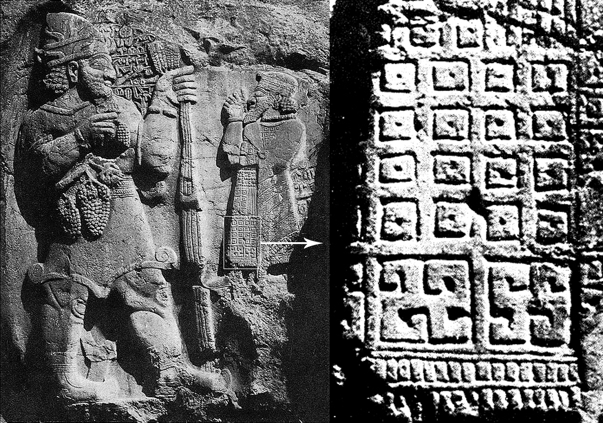 Sarre, Hittite rug Burlington, December 1908, p. 144. The Hittite Monument of Ivriz near Eregli. Showing unusual form of Swastika.